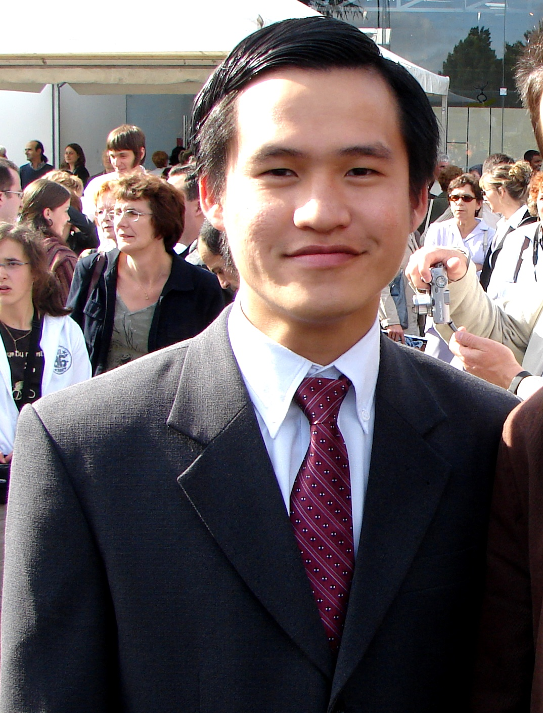 Nguyễn Tiến Trung at Institut national des sciences appliquées (INSA) graduating ceremony (June 29 2007)